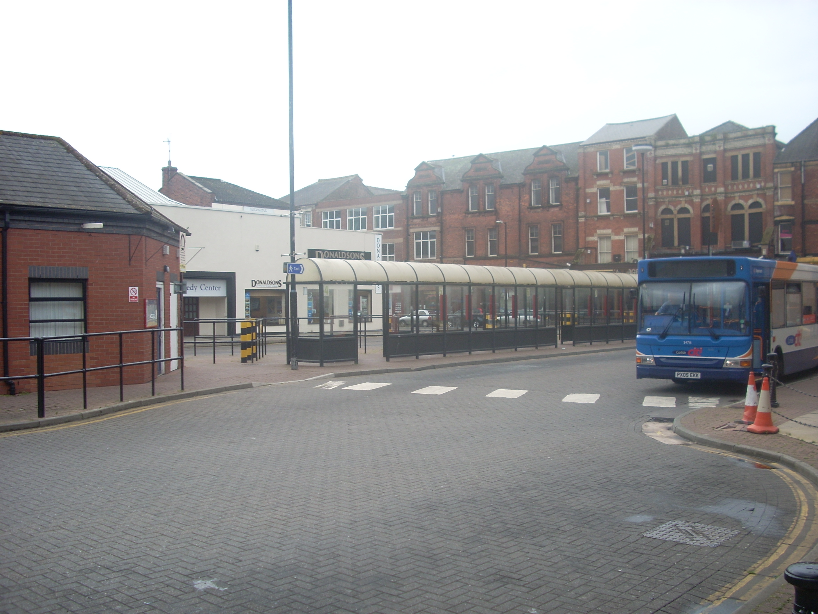 Carlisle bus station - July 2009